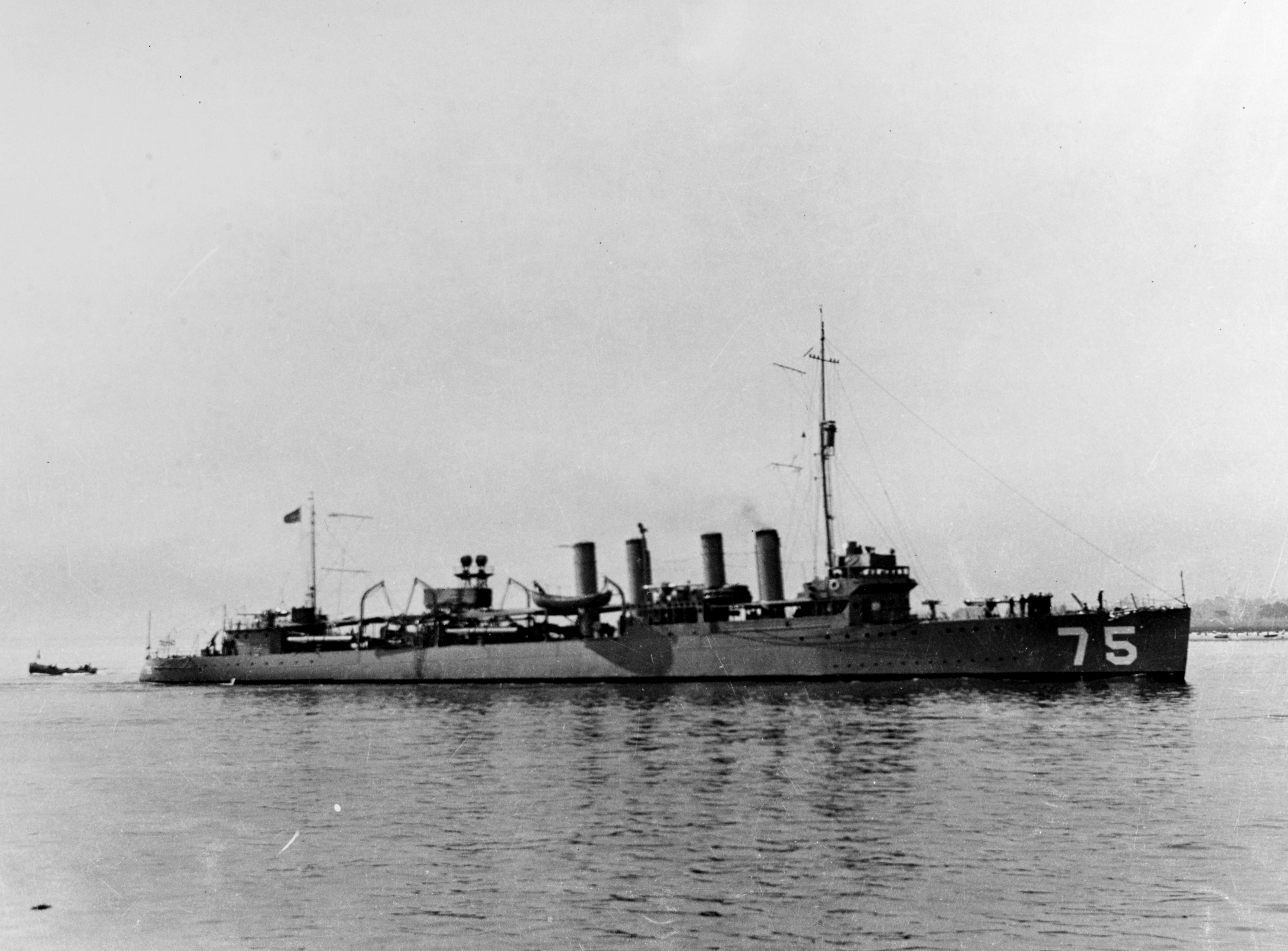 The U.S. Navy destroyer USS Wickes (DD-75) in a harbour, circa the early 1920s.